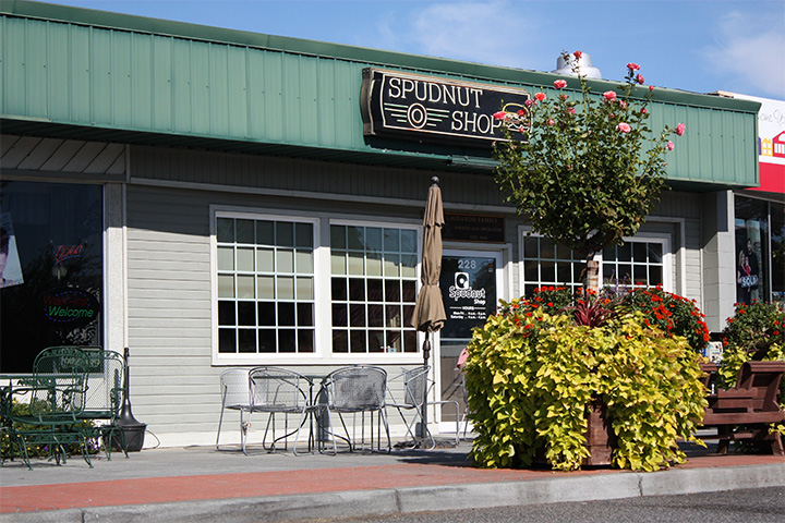 The Spudnut Shop located in the Uptown Shopping center in Richland, WA. Photo credit: Nathan Taylor